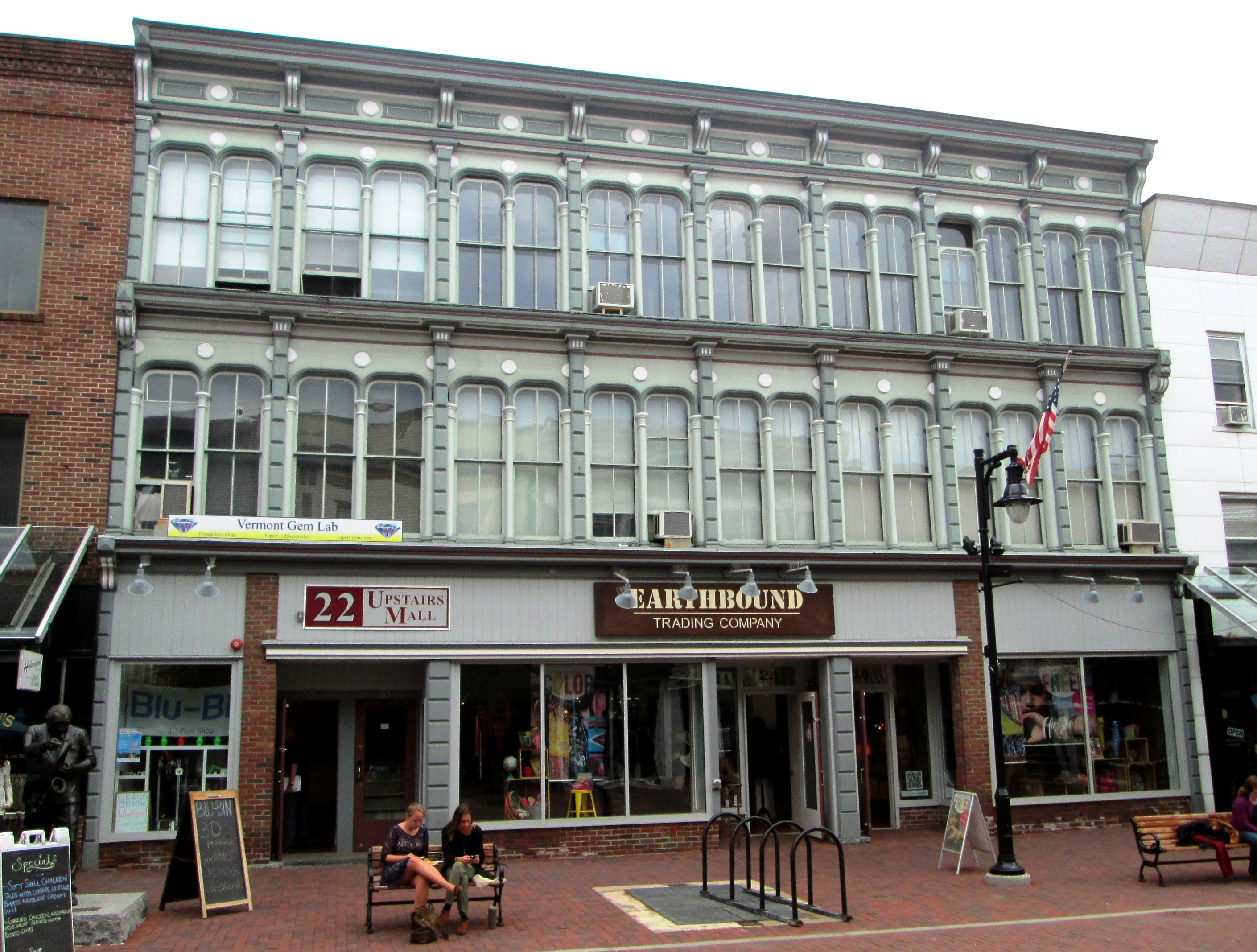 20-26 Church Street, known as "Bacon's Block", between Pearl and Cherry Streets in the Church Street Marketplace of downtown Burlington, Vermont, was built in 1874 and was designed ny E C. Ryer of Burlington in the Italianate style, under the supervision of John Clure. It is a contributing property to the Church Street Historic District. (Source: [1])